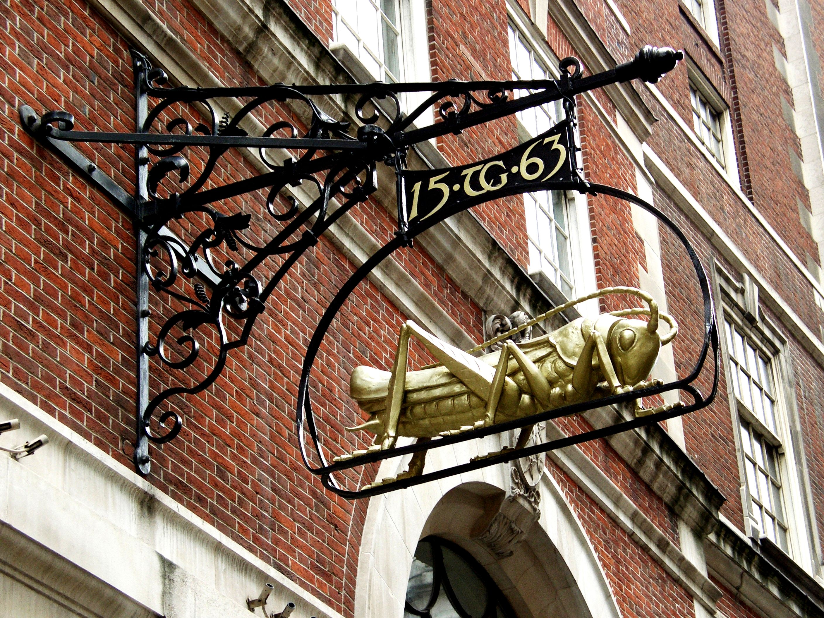 Londres - Lombard Street. Sir Thomas Gresham's gilded grasshopper symbol (heraldic crest of Gresham family) with initials "TG" and date 1563, Lombard Street, City of London.